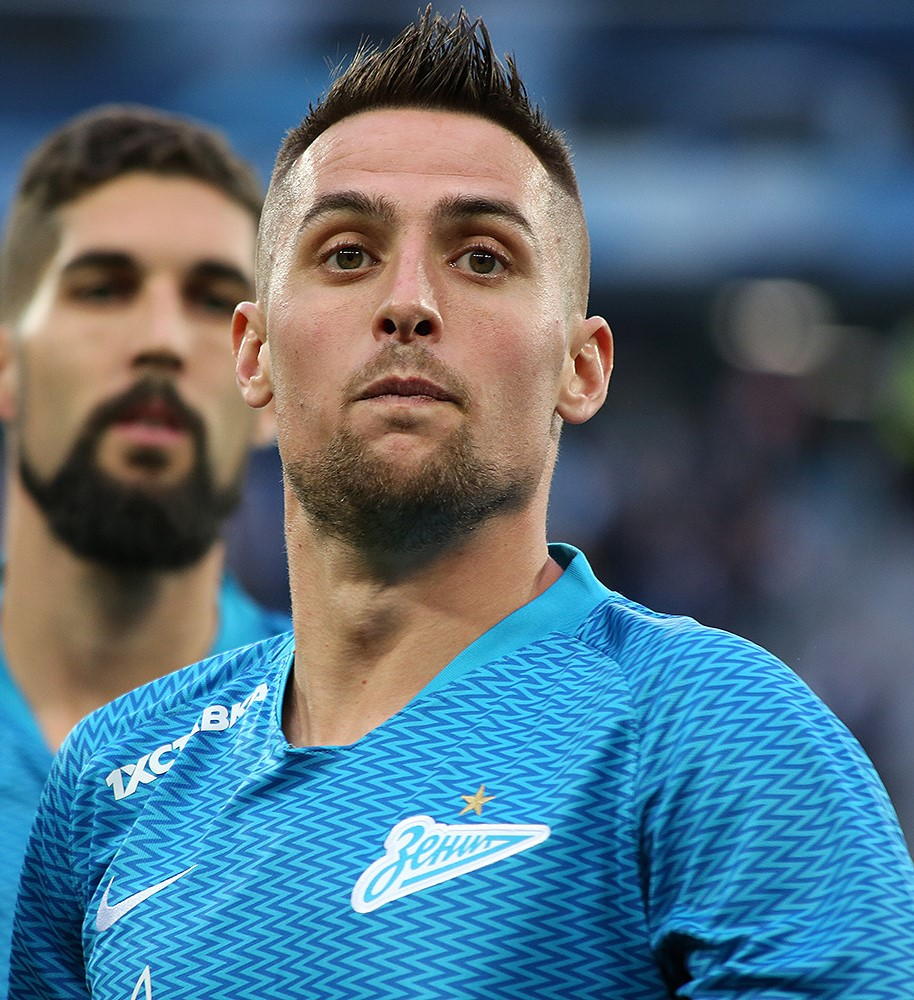 Robert Mak